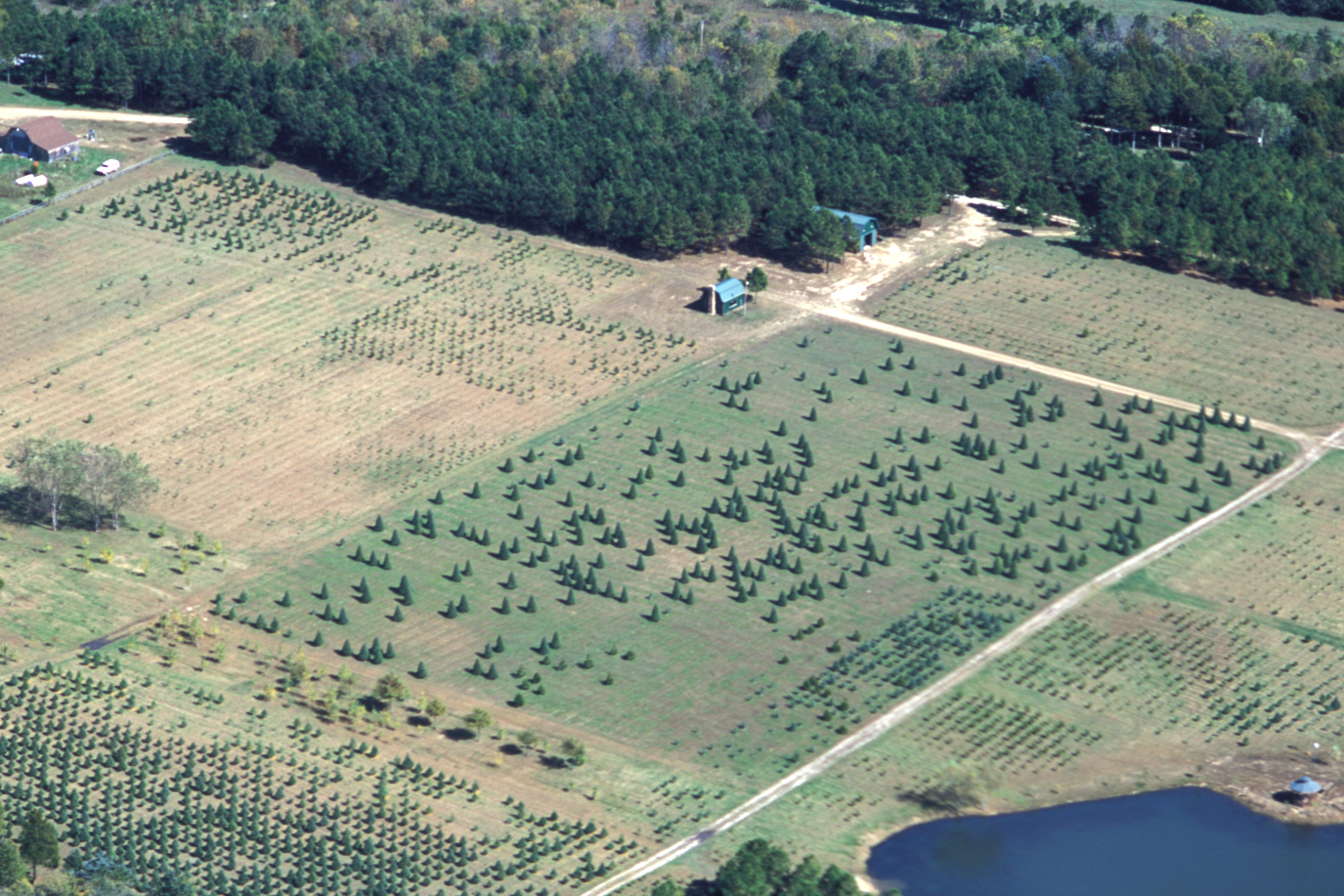 Southern Virginia farm of Christmas trees of various types.